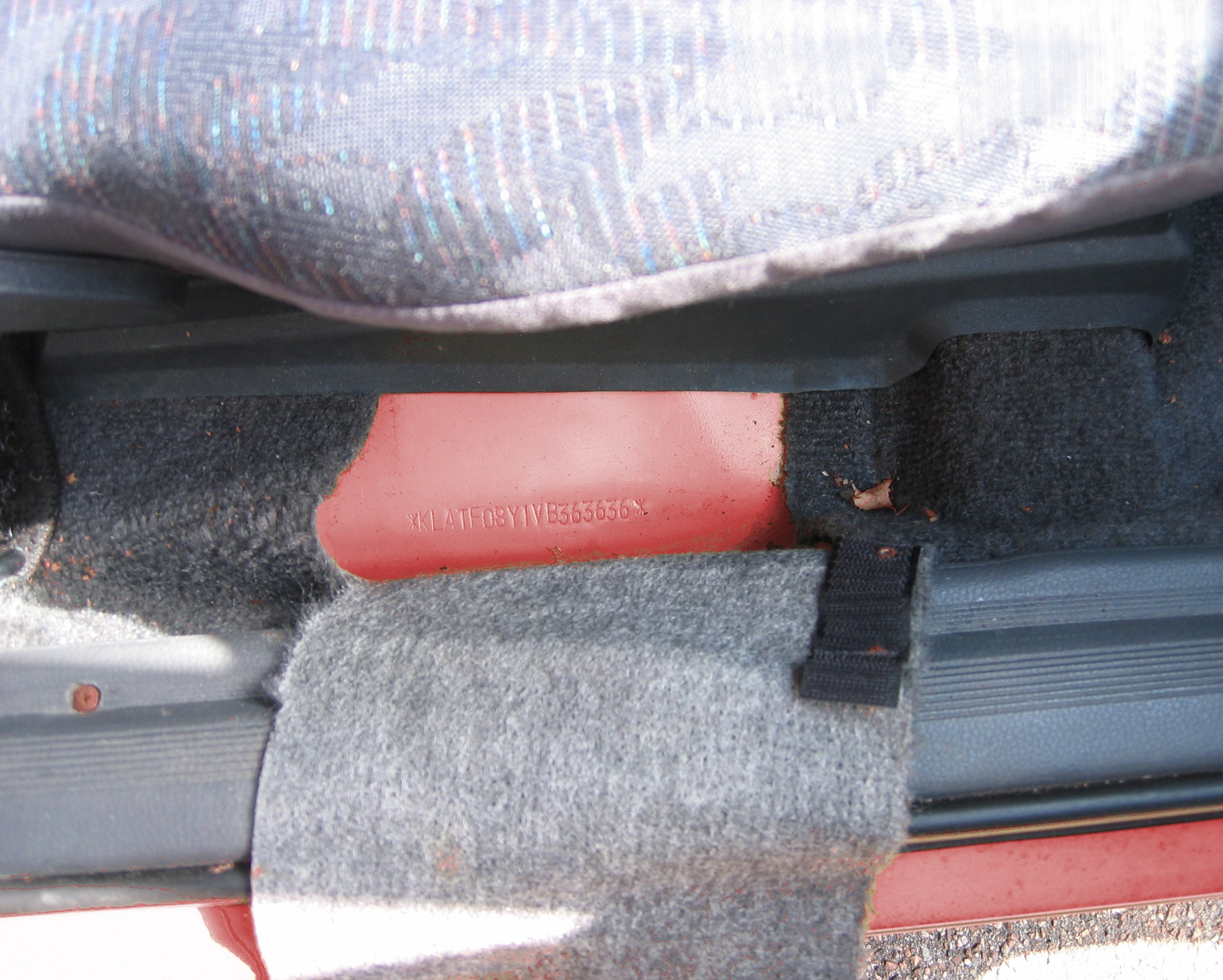 VIN - Vehicle Identification Number right side the seat of an GM T-car mid 1990 Series (modified code to prevent fraud - test calculation of checksum will fail!)